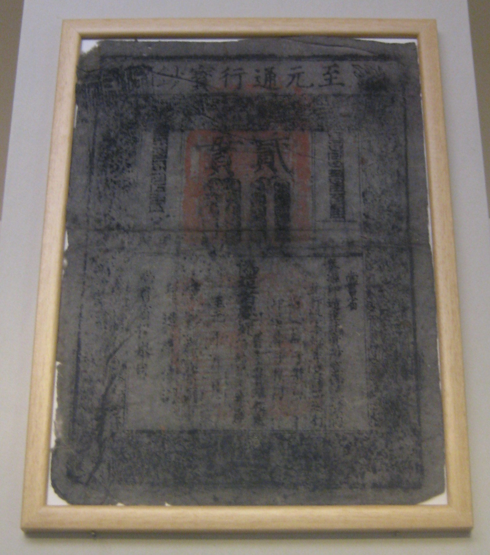 Zhiyuan banknote. Yuan Dynasty (1206-1368). Discovered at the Sakya Monastery, Tibet, in 1959. Phags-pa inscription (two vertical lines, reading left-to-right on either side of "2 Guan"): ꡆꡞ ꡝꡧꡦꡋ ꡎꡓ ꡅꡓ / ꡆꡦꡟ ꡙꡟ ꡉꡟꡃ ꡯꡨꡞꡃ (ji 'wėn baw chaw / jėu lu thung hying) = 至元寶鈔 諸路通行 "Zhiyuan precious money, for circulation in all provinces".